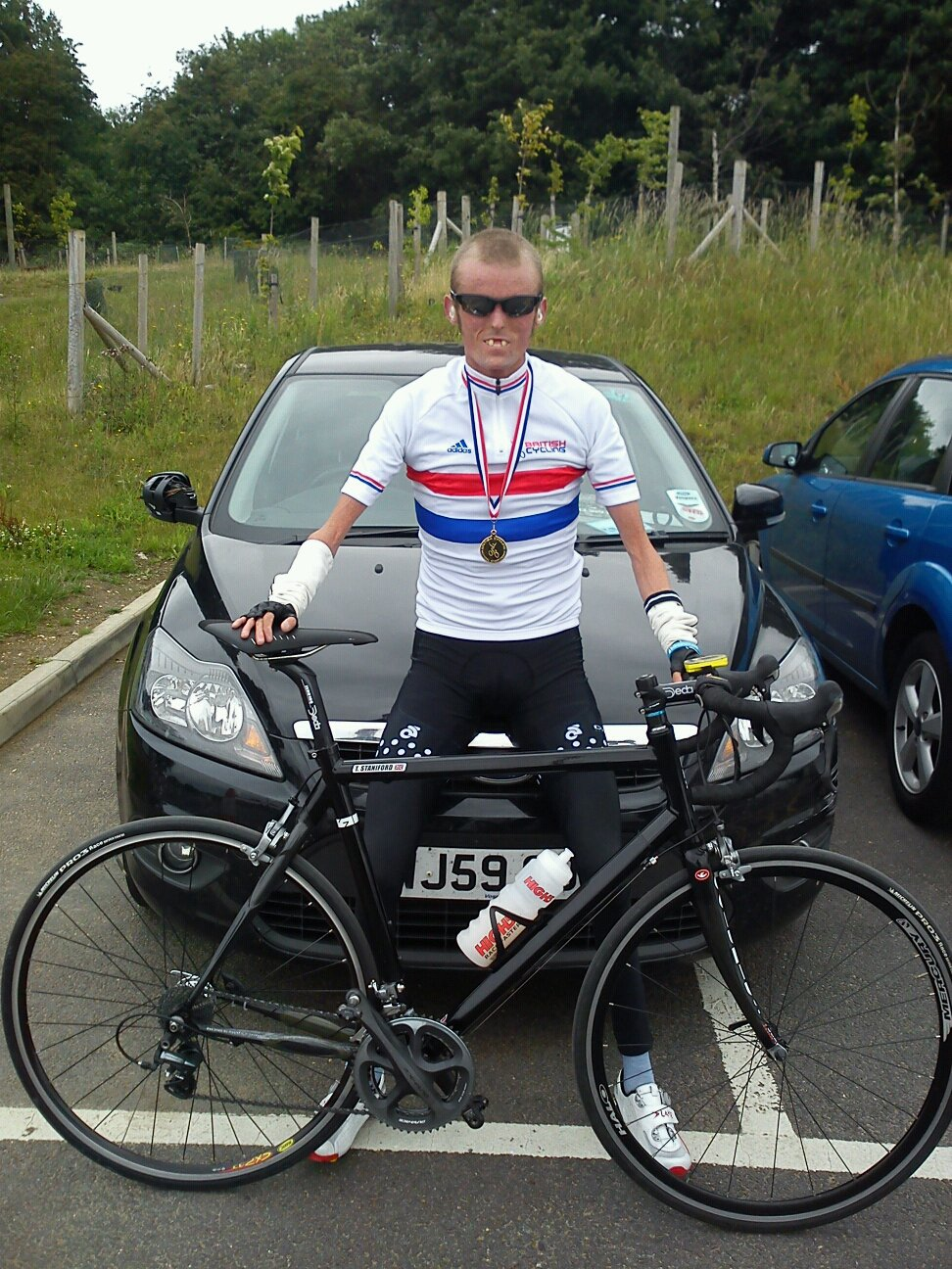 Tom Staniford 2011 National Para Crit Champion